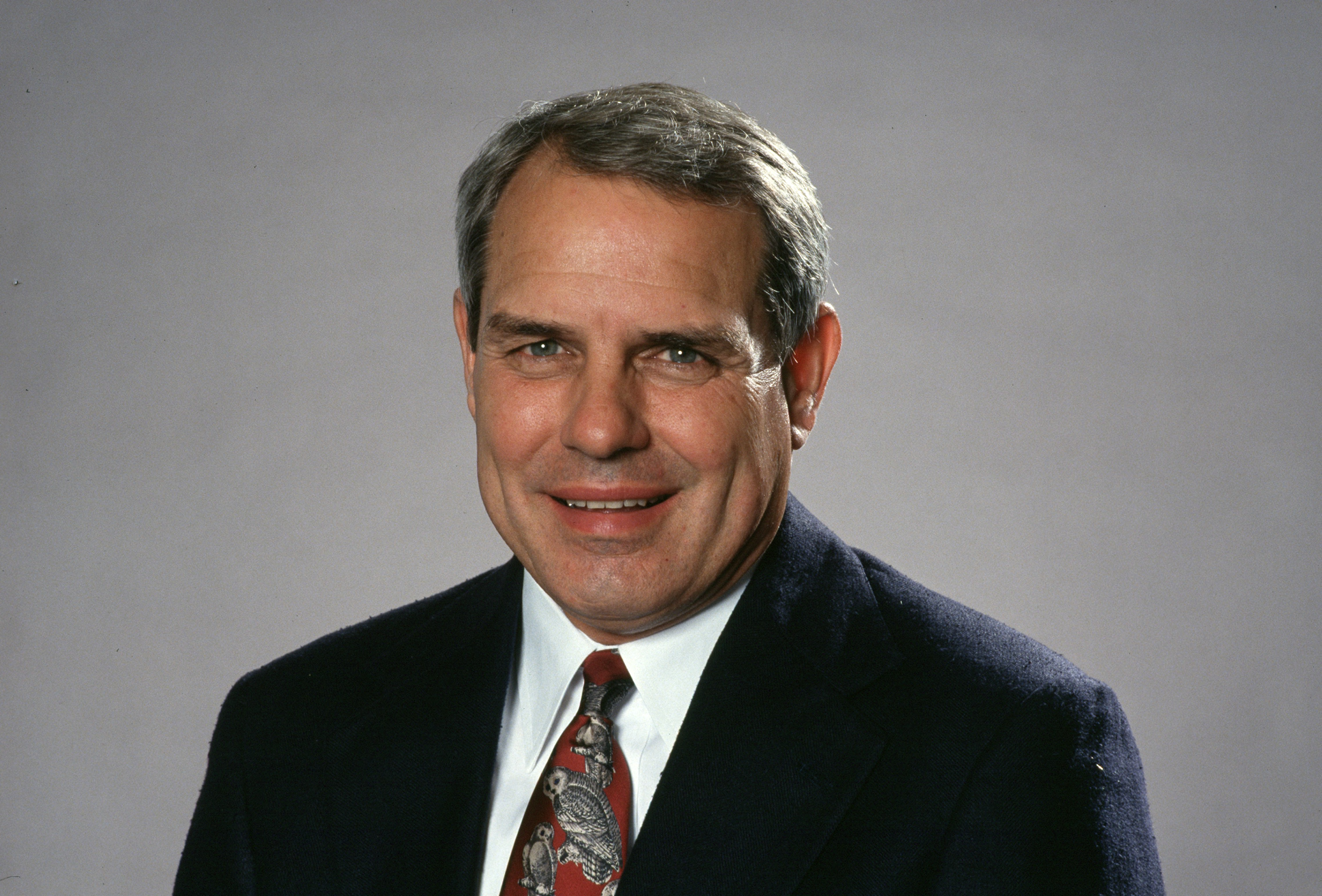 Color photographic portrait of Rice University football coach Ken Hatfield.